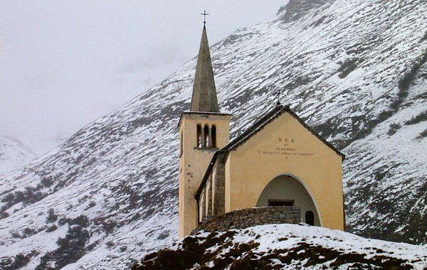 Church in Riale, Piemonte picture taken by user:Idéfix, november 2004